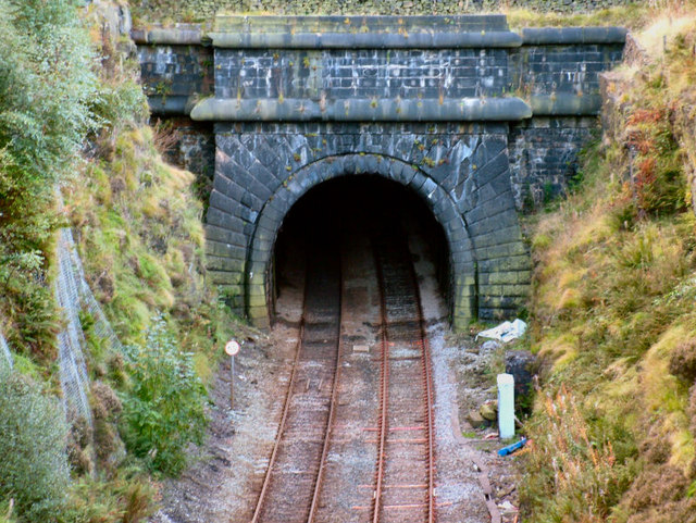 Entrance to Summit Tunnel.